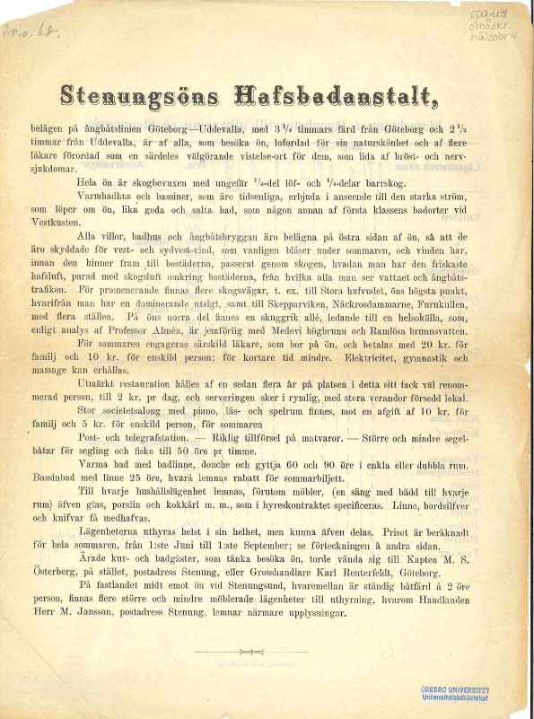 Advertising leaflet for Stenungsön seaside resort, probably late 19th century.